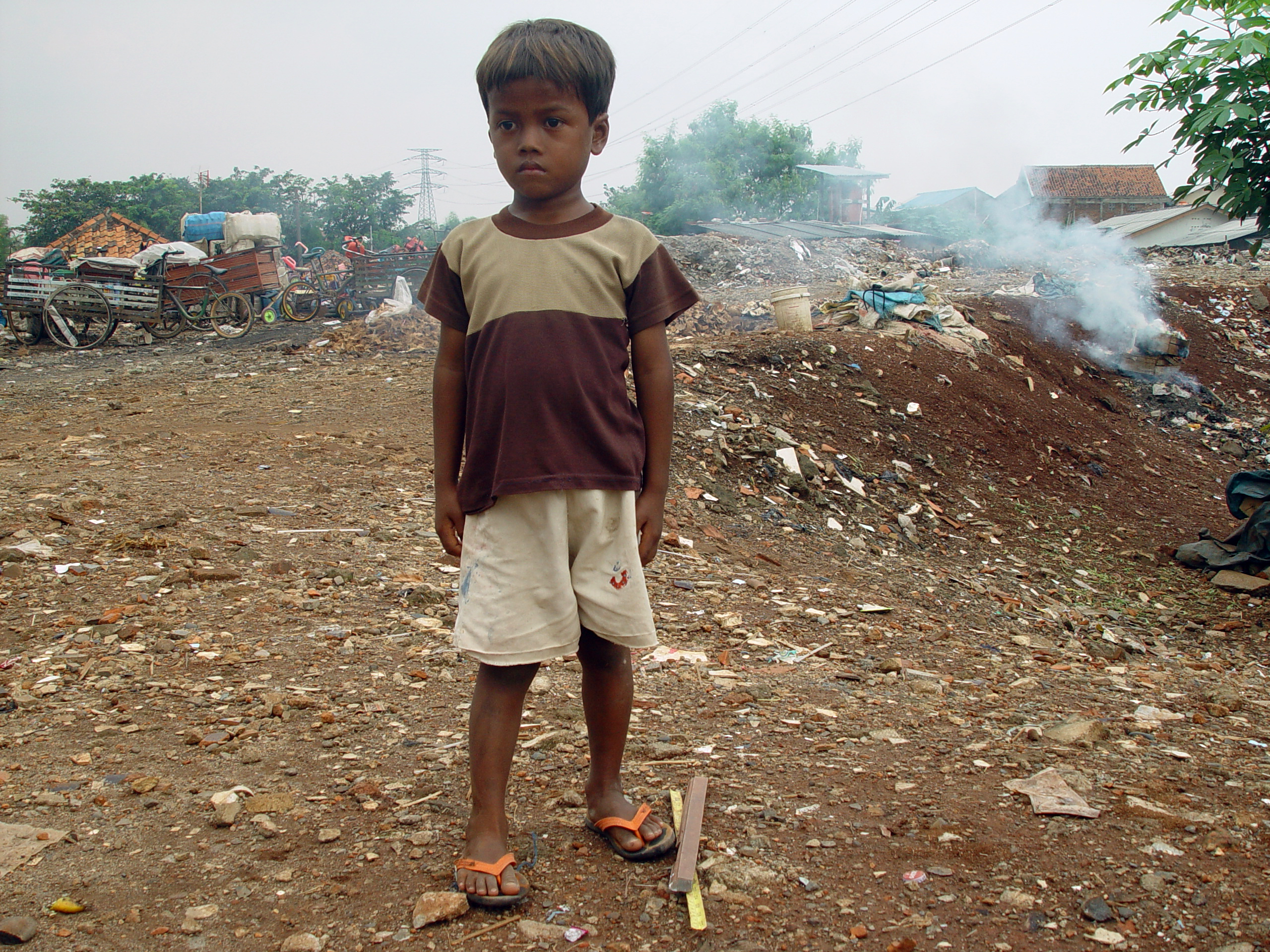 Slum life, Jakarta Indonesia. Picture taken by Jonathan McIntosh, 2004.